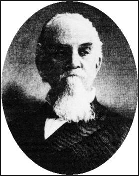 photo of Edmund W. Pettus (1821-1907)